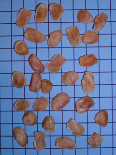 Semente de Angico-Vermelho